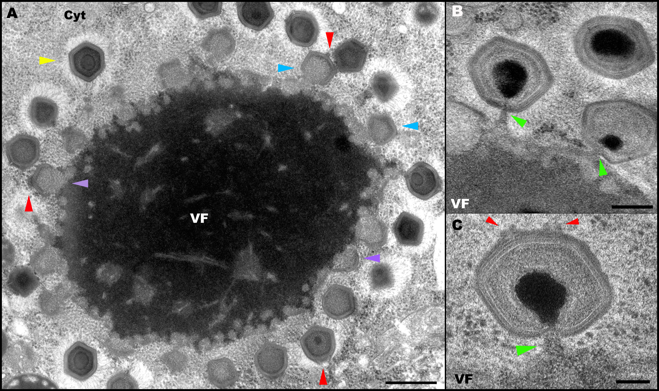 Mimivirus - Intracellular Viral Factories and DNA Packaging A) TEM of an intracellular viral factory, revealing Mimivirus particles at various assembly stages - VF: viral factory - Cyt: cytoplasm. - Purple arrows: Empty, fiber-less particles at initial assembly stages, appearing at close vicinity to the periphery of the viral factory - Blue arrows: Partially assembled empty, fiber-less particles - Yellow arrows: Mmature, fiber-covered particles located further away from the viral factory than immature particles - Red arrows: A stargate that is consistently located at the distal site of the factory can be discerned in several particles B) and C) TEM of Mimivirus particles - Green arrows: Mimivirus particles undergoing DNA packaging through a non-vertex face-centered site - Red arrows: Two edges of a stargate located at the opposite site of the DNA packaging site Scale bars: 500 nm in (A), 200 nm in (B), 100 nm in (C)